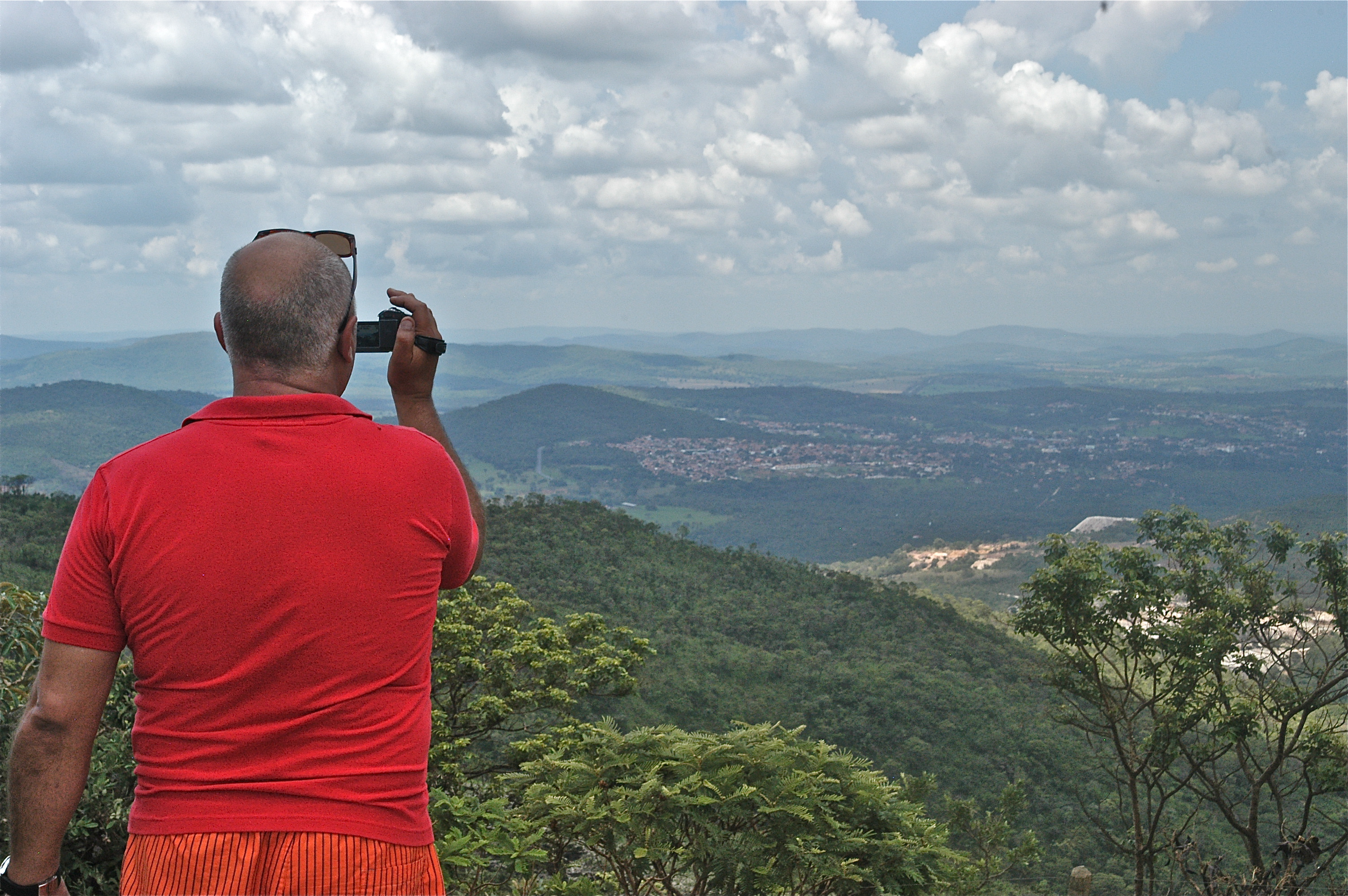 filming pirenopolis city in Brazil from a view point on the Pirineus montains